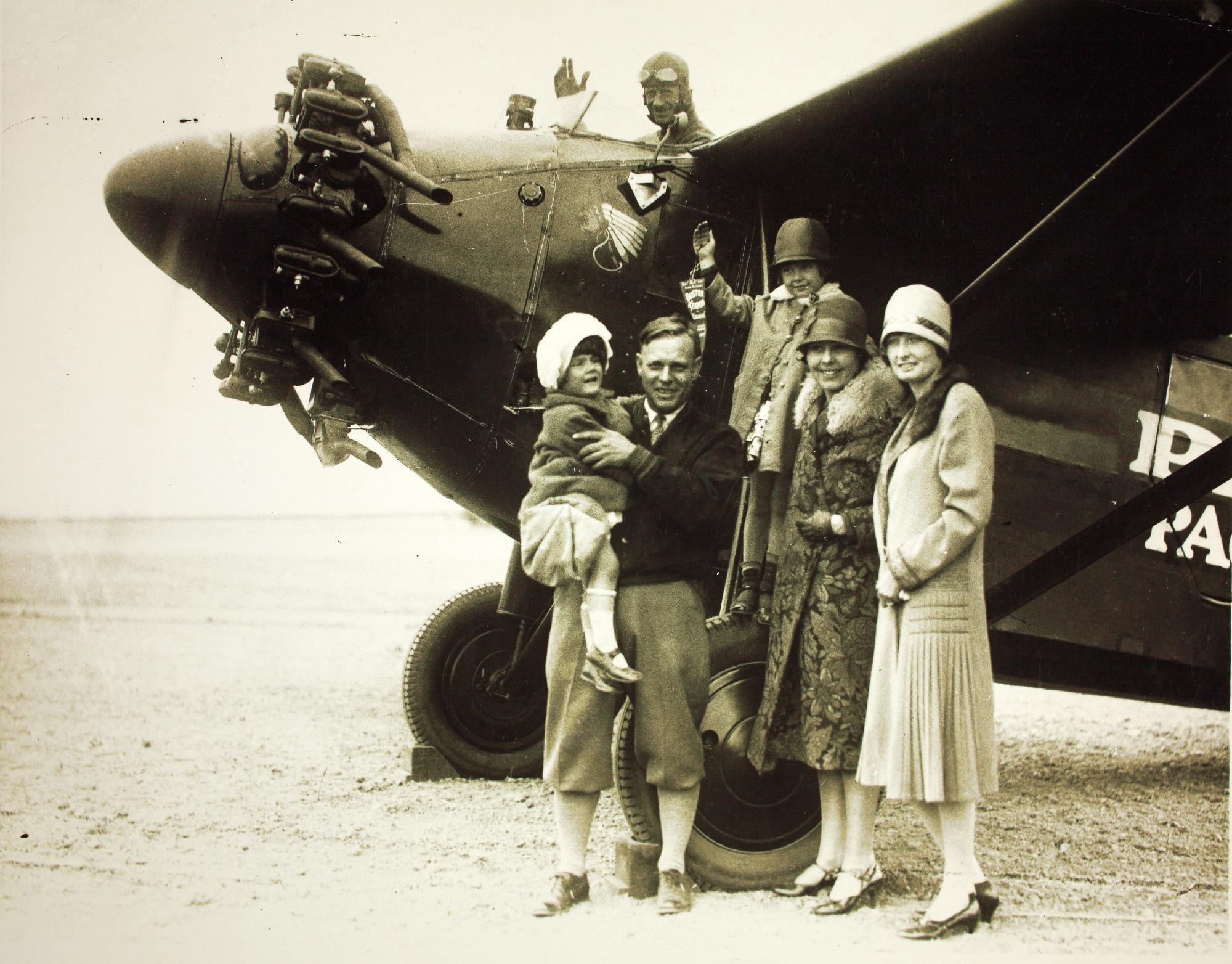 Catalog #: 10_0014350 Title: Dole Air Race Breese ""Pabco Pacific Flyer"" NX646 Additional Information: Breese ""Pabco Pacific Flyer"" NX646 Tags: Dole Air Race Breese ""Pabco Pacific Flyer"" NX646, Breese ""Pabco Pacific Flyer"" NX646 Repository: San Diego Air and Space Museum Archive